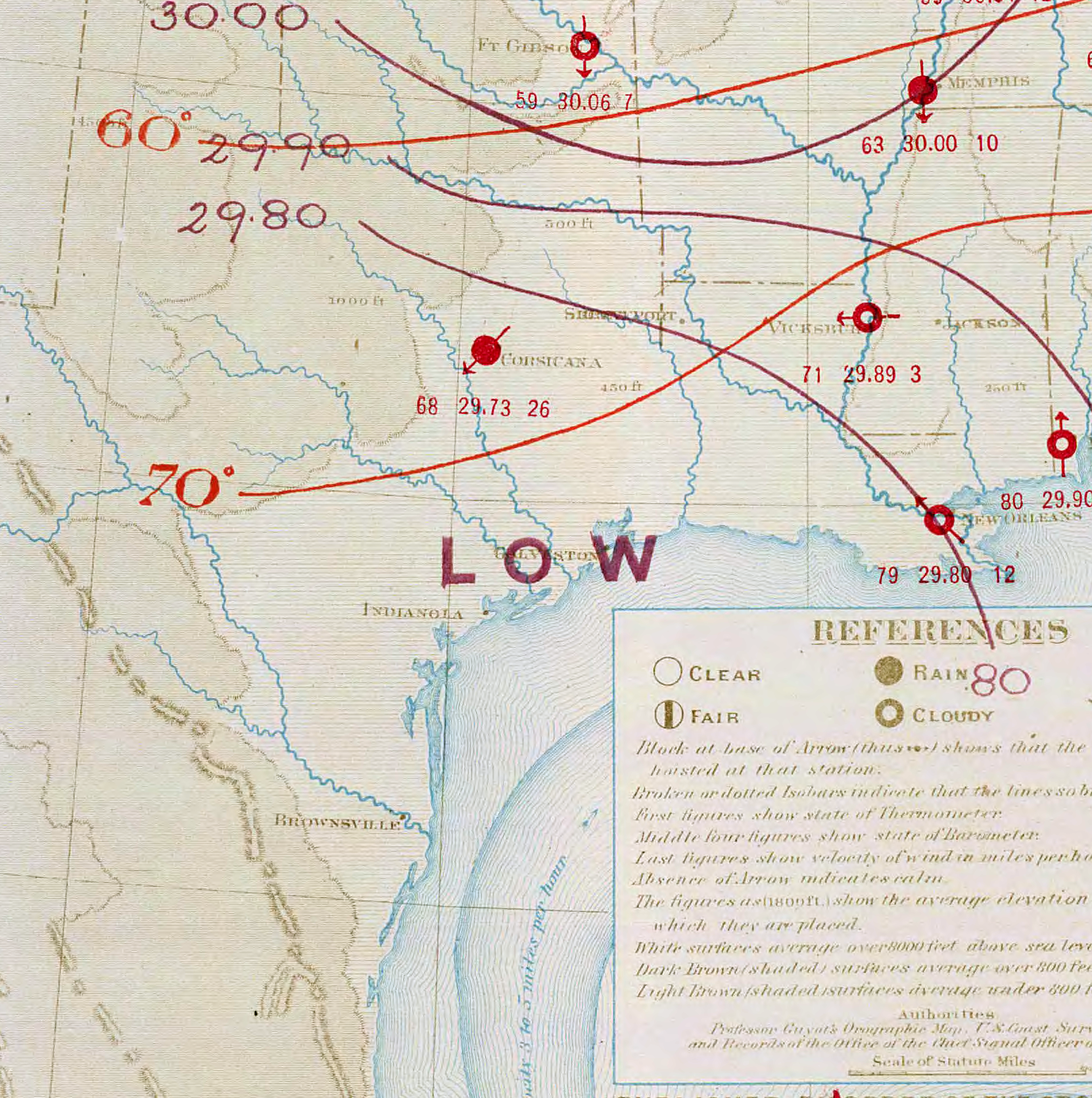 Surface weather analysis of Hurricane Three on 17 September, 1875.